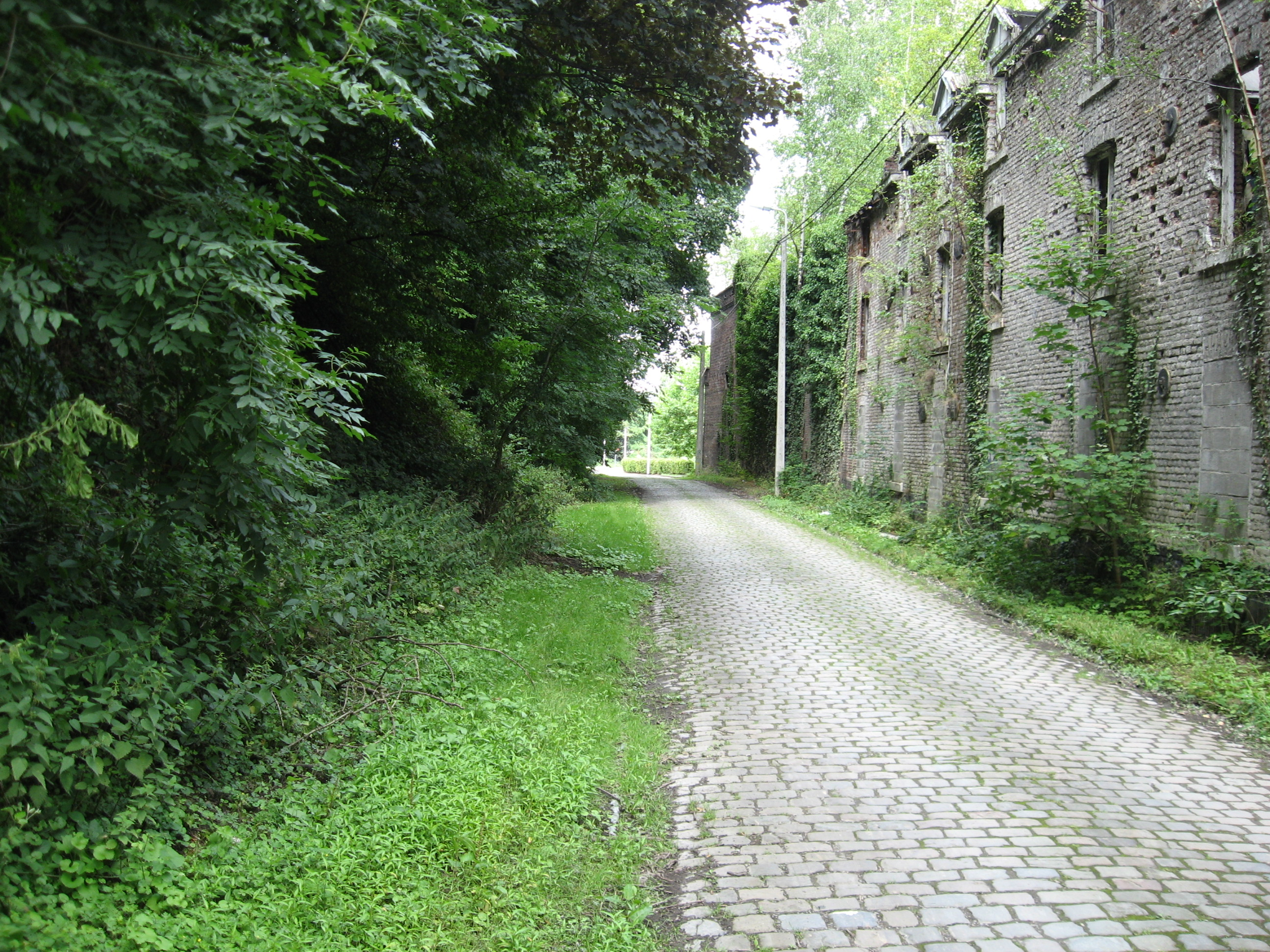 Starting point in Val-Saint-Lambert of the vicinal railway to Clavier. To the right is glass factory of Val-Saint-Lambert. On the left is the space where the metergauge track used to lay. The tracks where broken up in 1954.